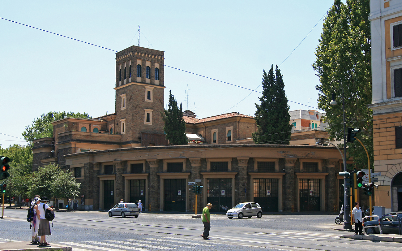 The fire station of Roma Ostiense, also seat of the Historic museum of Fire fighters in Rome, Italy